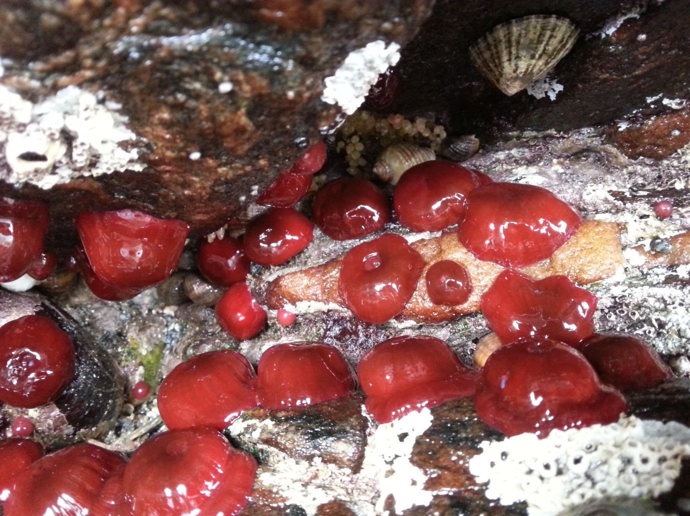 Actinia ququina (beadlet anemones) with tentacles withdrawn. Low tide. From Rogaland, Norway. Photographer: O. Nevestveit